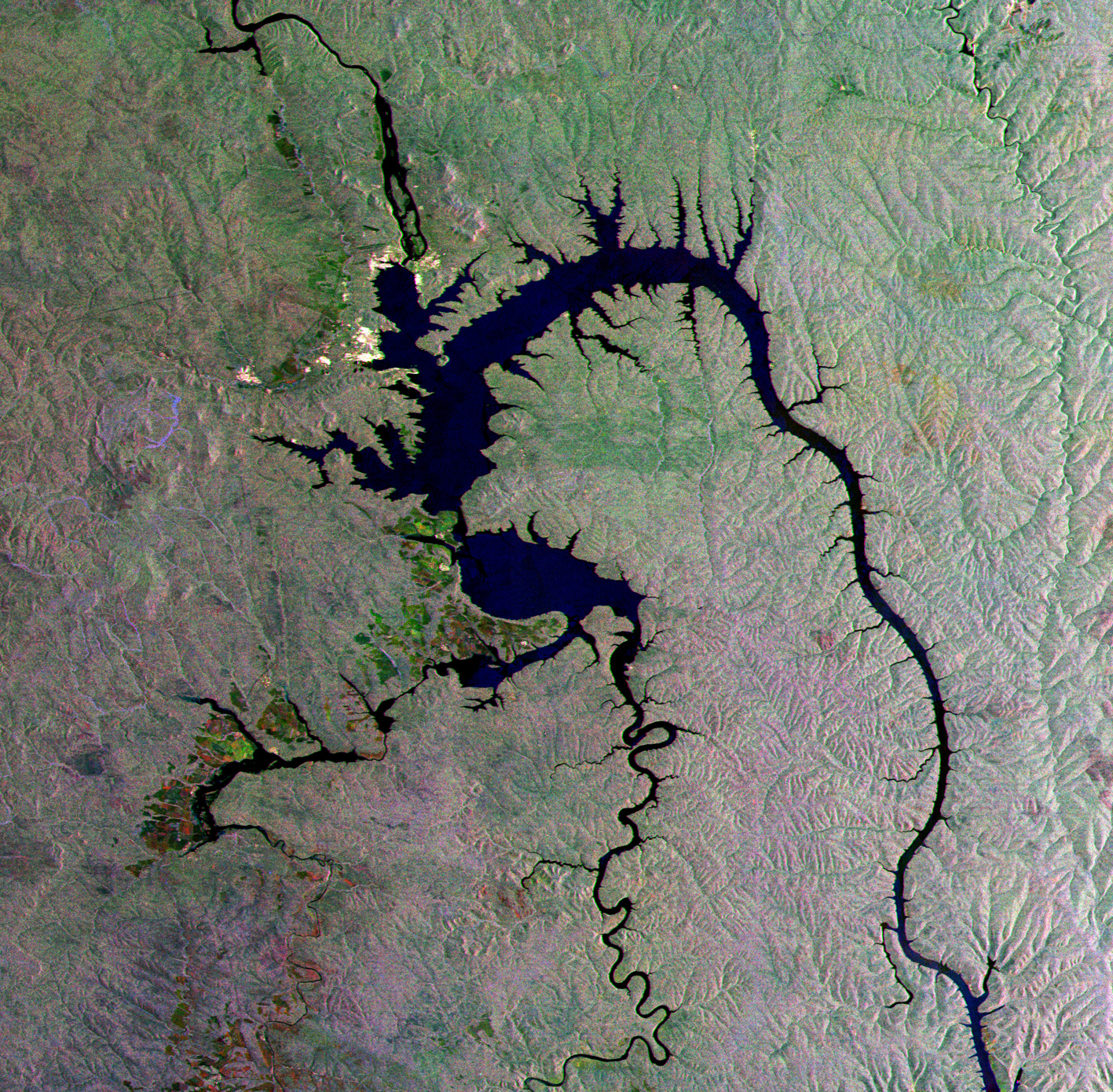 The gecko-shaped body of water featured in this Envisat radar image was formed by the Bratsk Reservoir in southeastern Siberia, Russia. The reservoir was formed in the 1960s by damming the Angara River to provide hydroelectric power. The dam, 125 m high and 4417 m wide, was built near the city of Bratsk (white area in the upper left). Agricultural crops can be seen along the southwestern side of the reservoir, including grains, potatoes and vegetables.